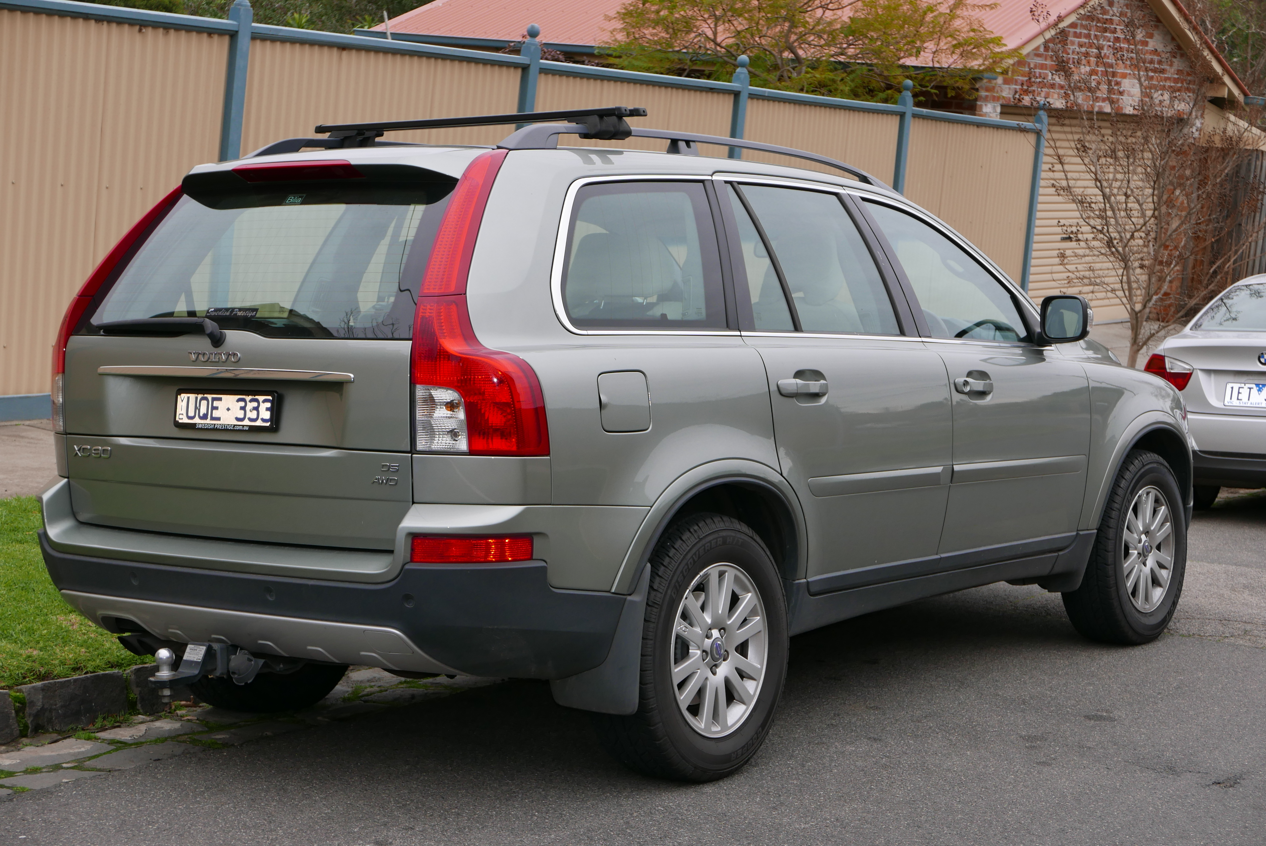 2007 Volvo XC90 (P28 MY07) D5 wagon. Photographed in Kew, Victoria, Australia. Vehicle registration enquiry results Jurisdiction Victoria Registration UQE333 Chassis code YV1CZ714671376712 Engine code 451579 Compliance date 2007-02 Year of manufacture 2007